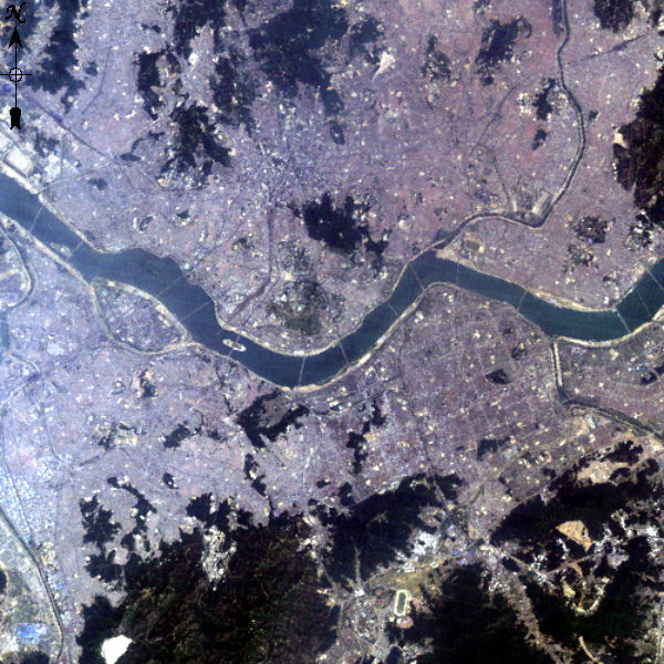 Large Landsat image of Seoul